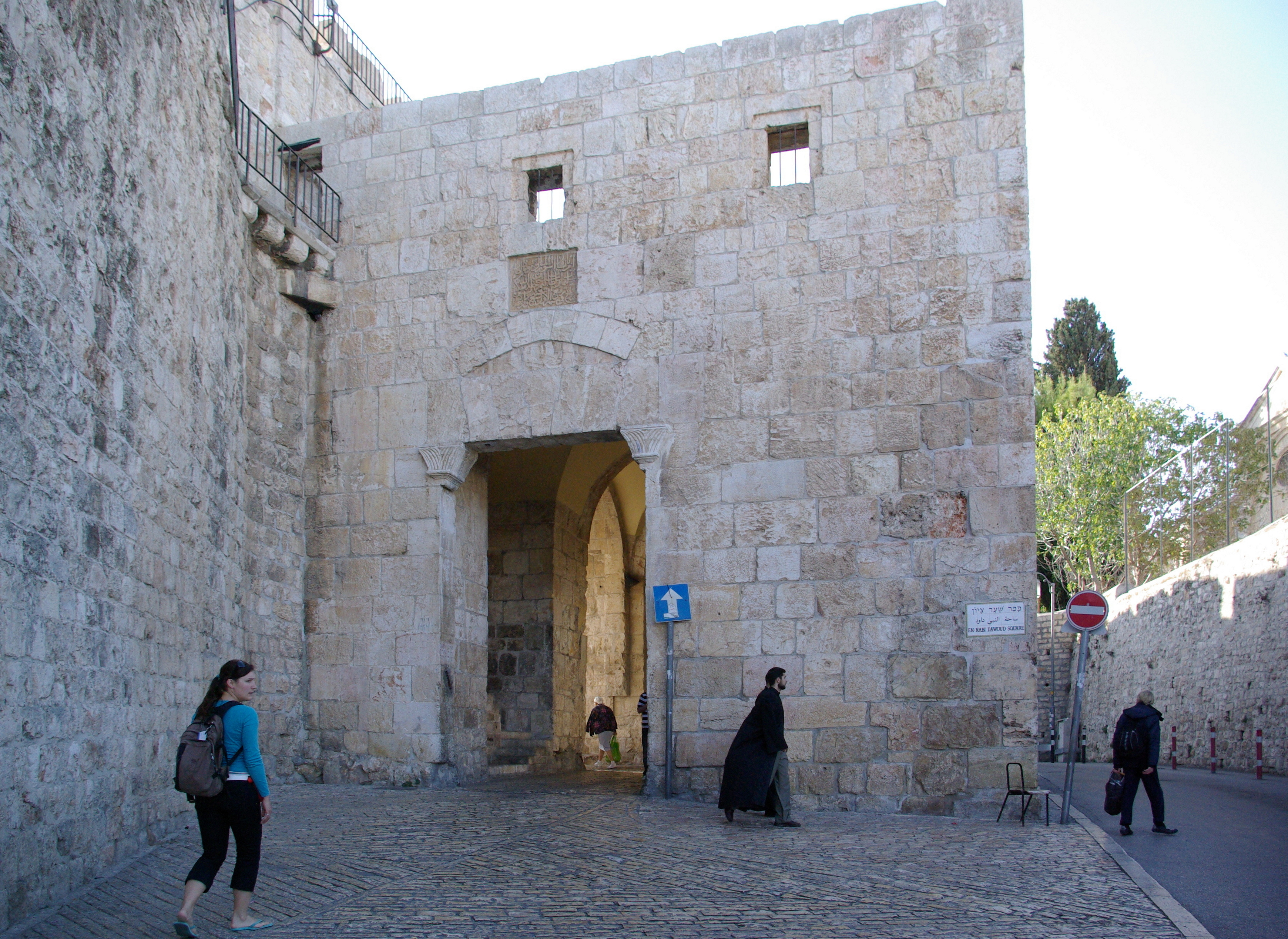 Jerusalem, Ziongate, Townside